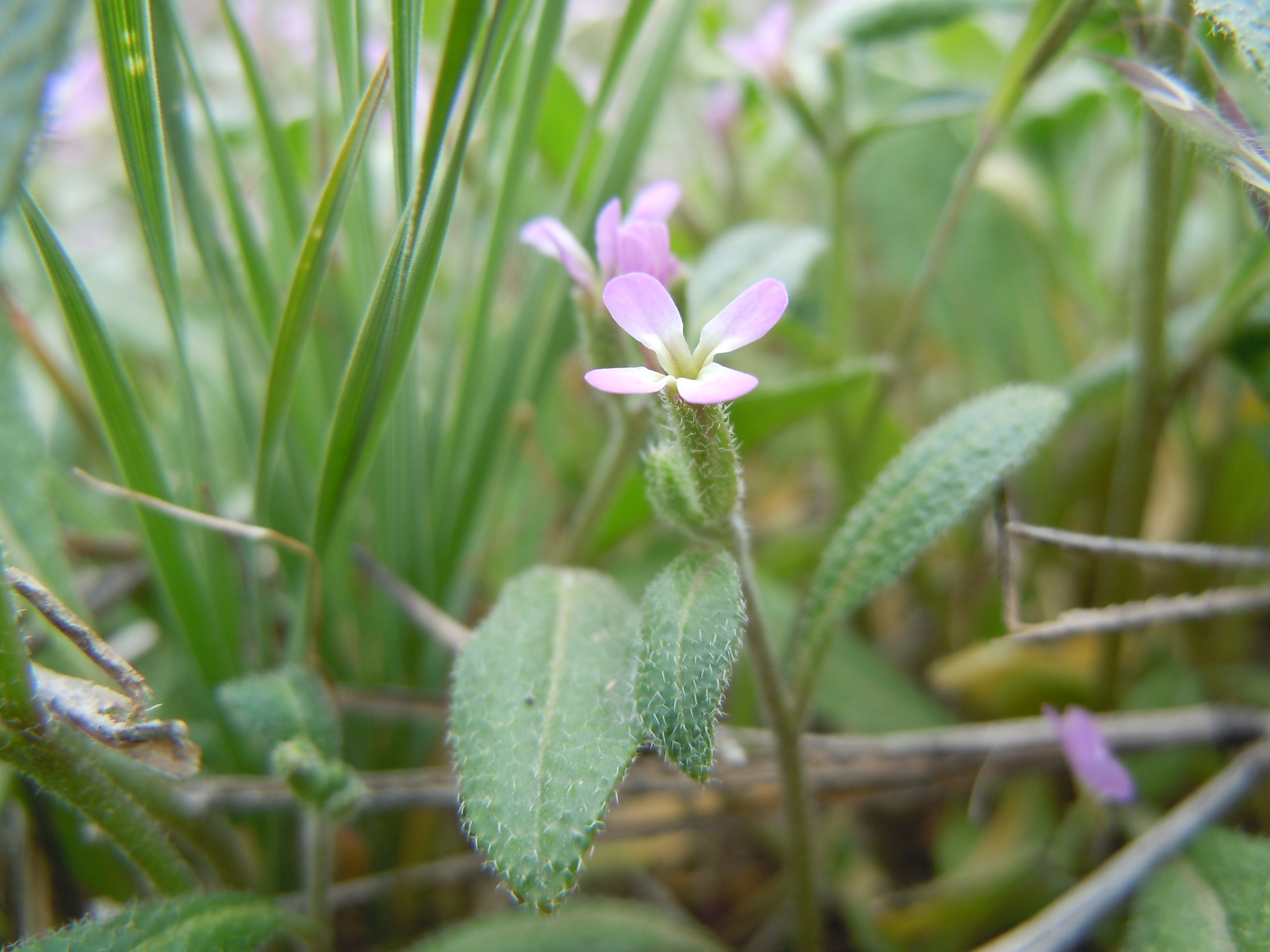 In contrast to Astragalus (Neo-Astragalus), Penstemon, Apiaceae, Eriogonum, and other plant groups characteristic of the sagebrush steppe, Malcolmia (like other annual mustards) is found exclusively roadside or of similar disturbance-prone settings.